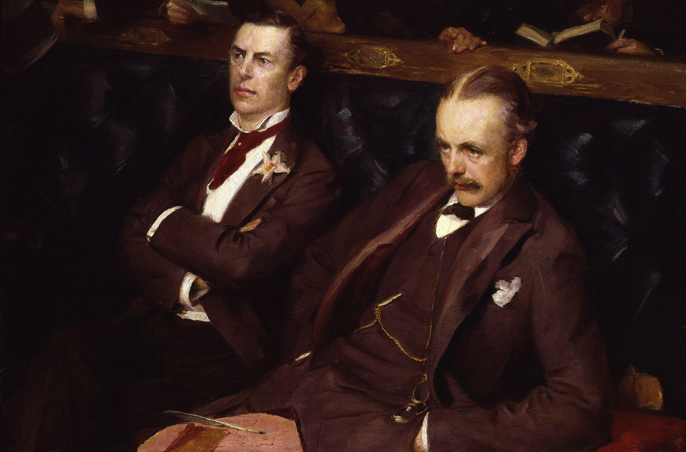 Joseph ('Joe') Chamberlain; Arthur James Balfour, 1st Earl of Balfour, by Sydney Prior Hall (died 1922). All images in this batch have been confirmed as author died before 1939 according to the official death date listed by the NPG.